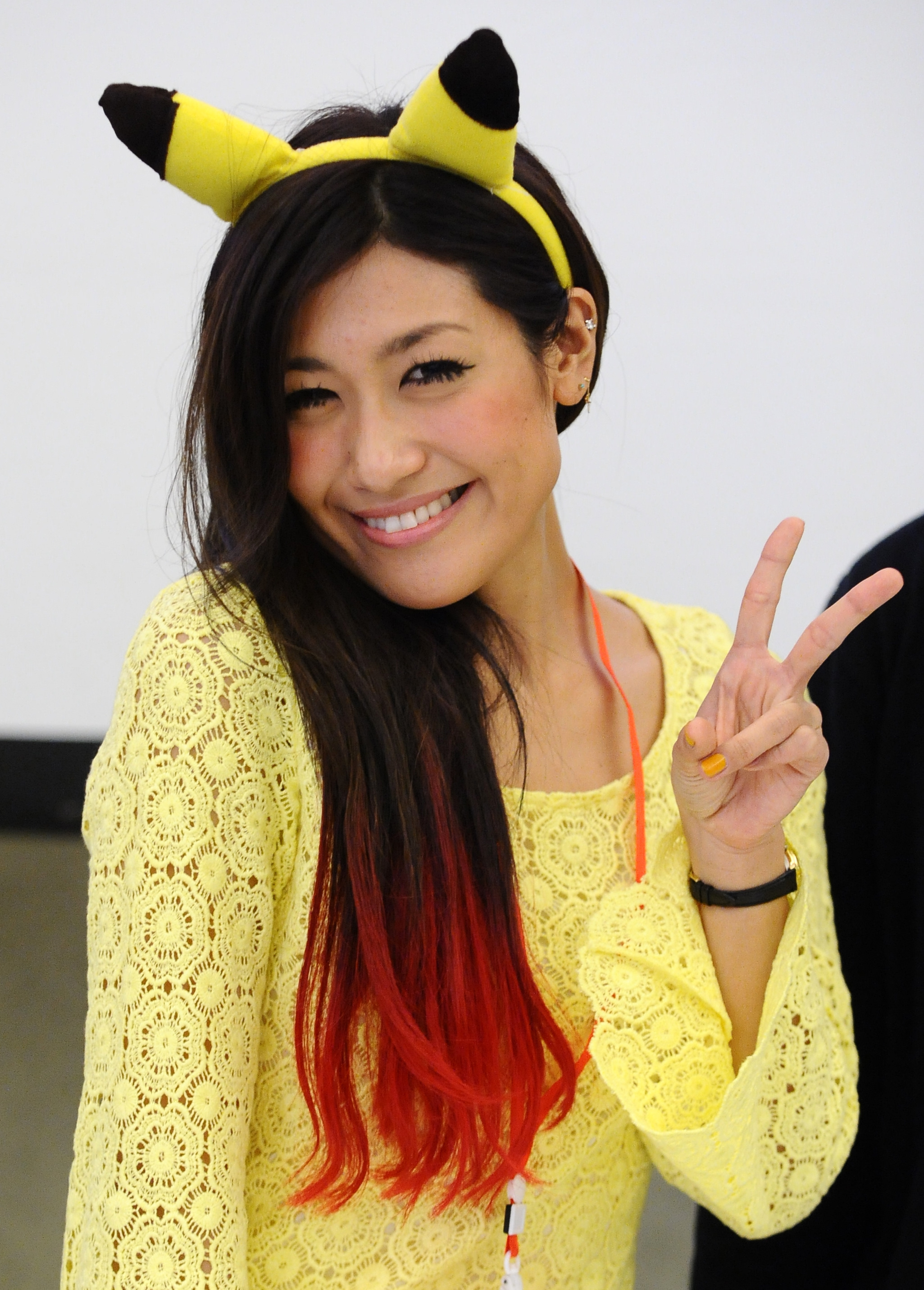 Maiko Katagiri (member of Japanese band MAY'S) at Lucca Comics and Games 2012.